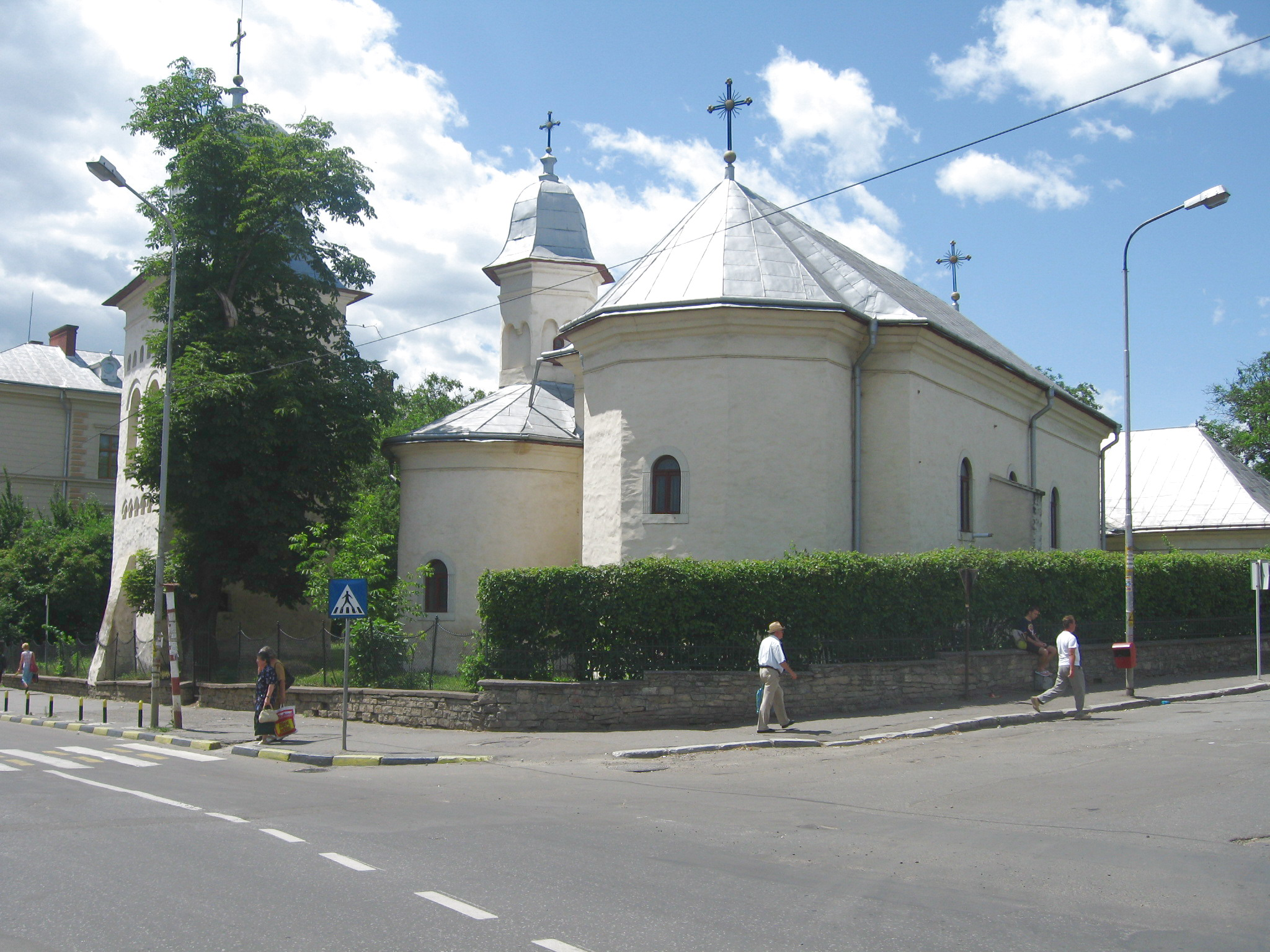 Holy Cross Armenian Church in Suceava.